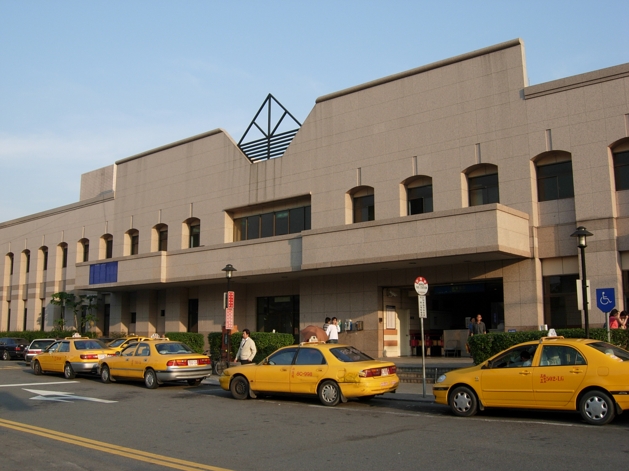 TRA Wanhua Station Passenger Exit